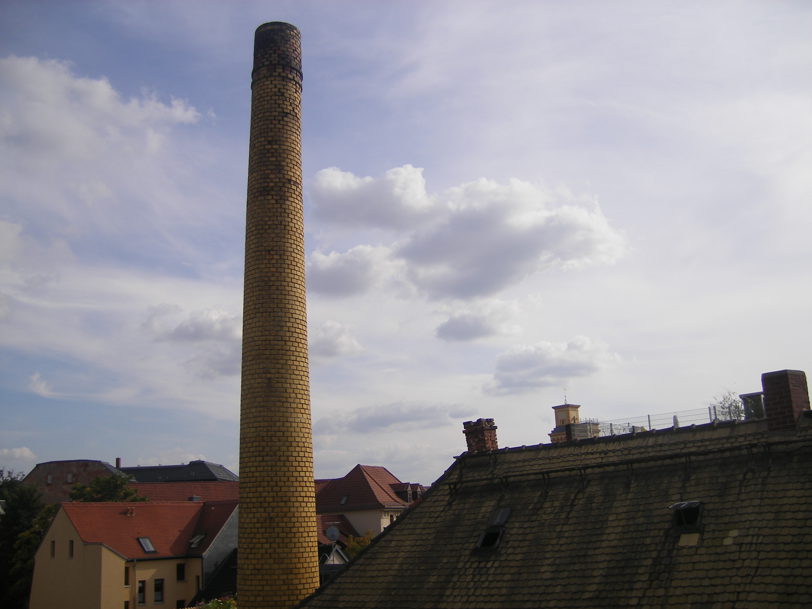 Chimney of so called Paul-Gustavus-Haus (coffee factory) in Altenburg/Thuringia